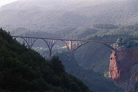 Djurdjevica Tara Bridge on Tara River, Montenegro